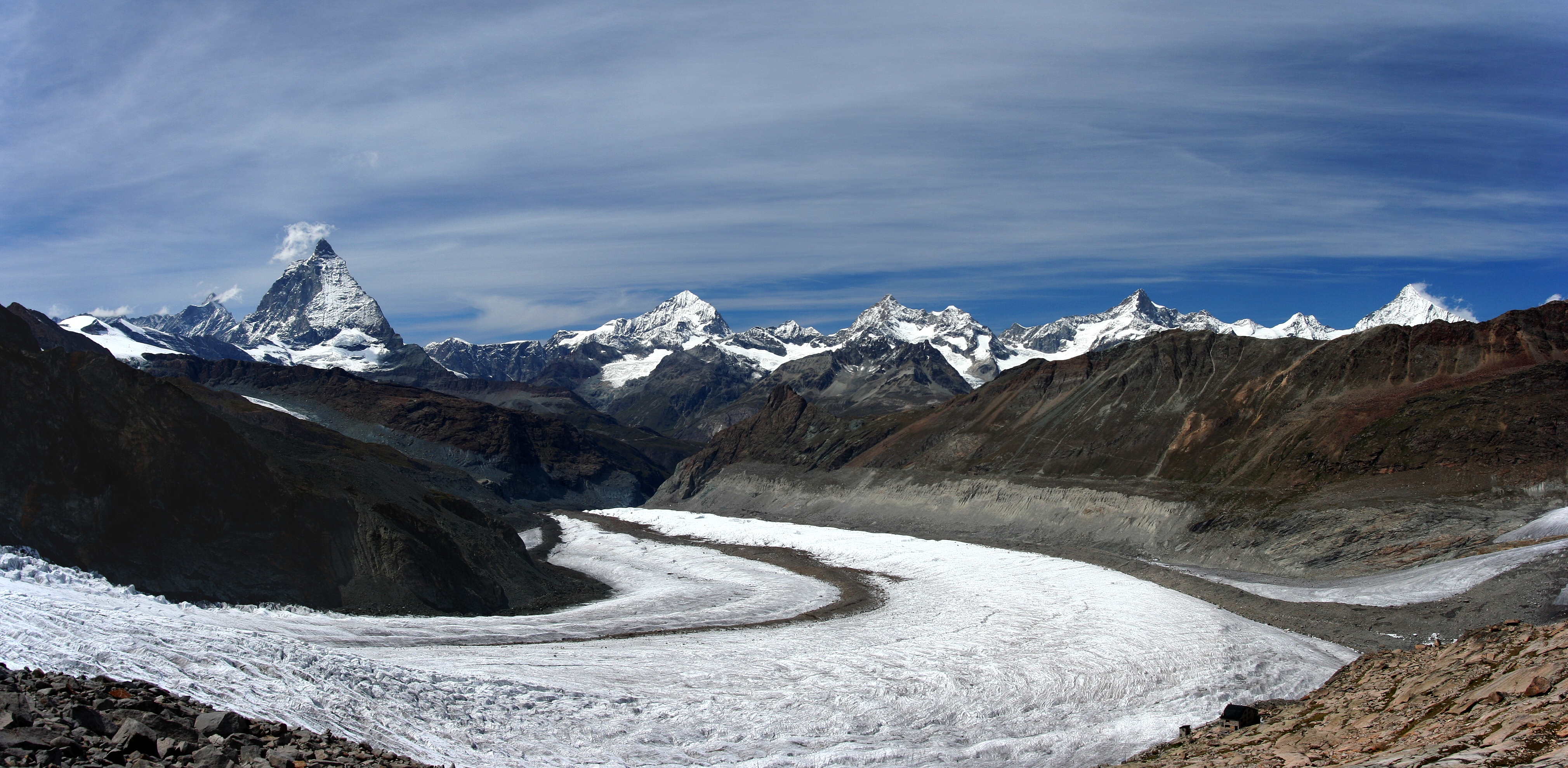 Gorner and Grenz glaciers. In the foreground on the bottom right Monte Rosa Hut (2795 metres). Summits in the background from the left to the right: Dent d'Hérens (4171m), Matterhorn (4478m), Dent Blanche (4357m), Obergabelhorn (4062m) and Wellenkuppe (3903m), Zinalrothorn (4221m) and Weisshorn (4506m)